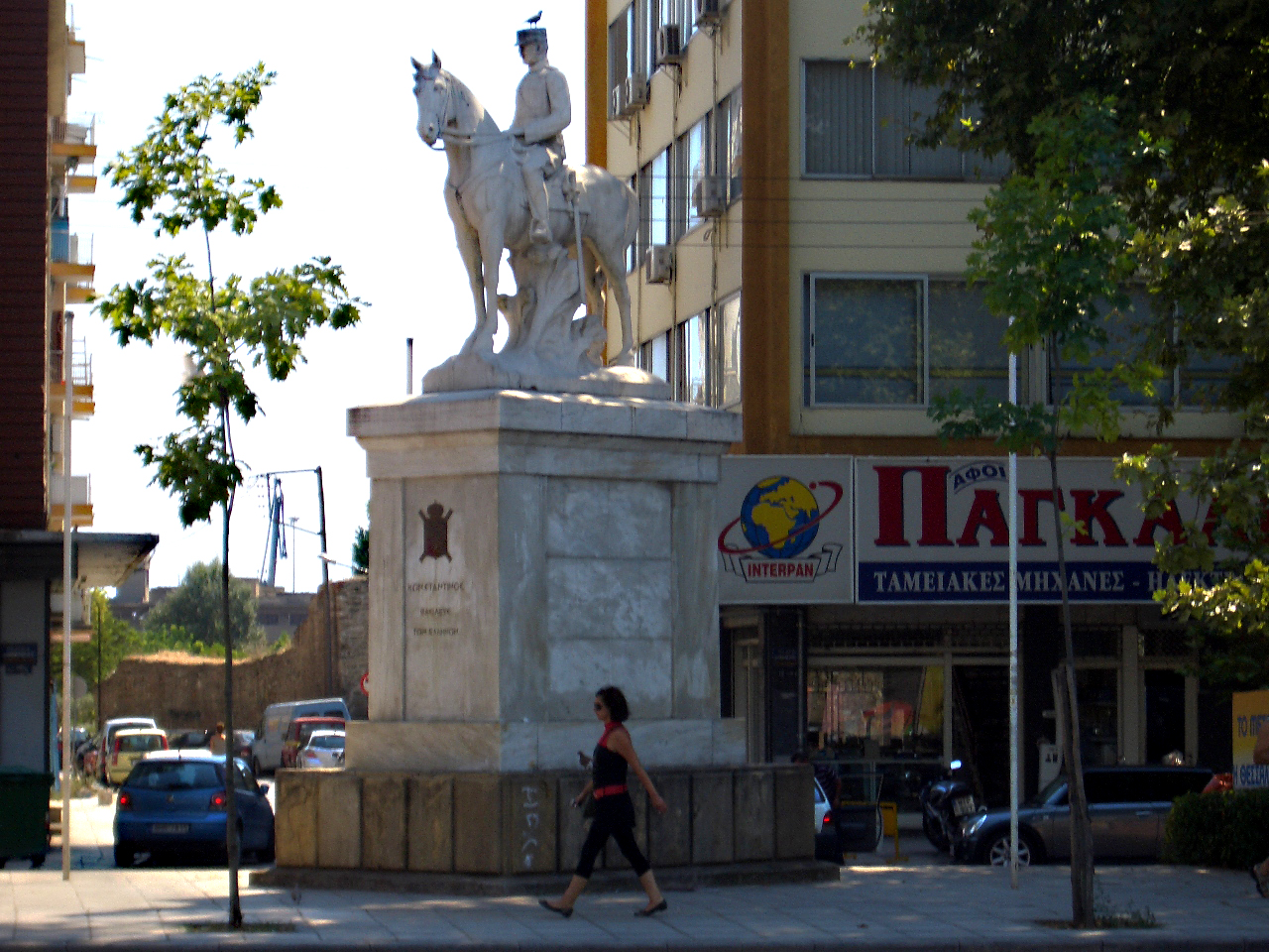 Square of Democracy (Vardariou). Statue of King Constantine I.